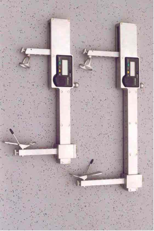 A mini-knemometer to measure the distance between knee and heel of an infant